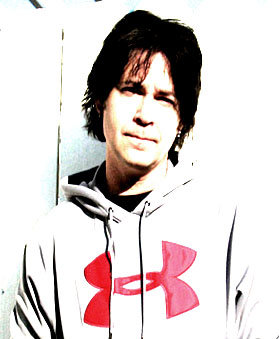 Marc hoodie